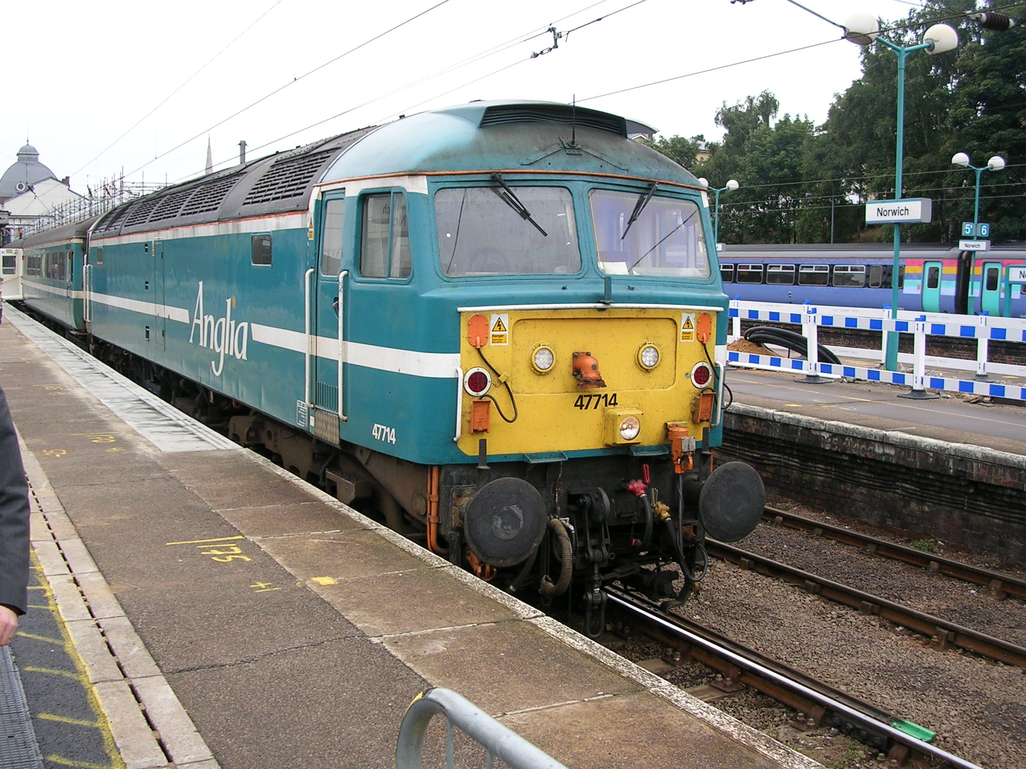 Cotswold Rail 47714 wearing the now defunct Anglia Railways livery at Norwich in 2005.